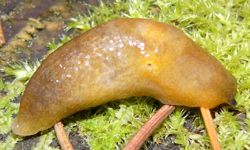 Malacolimax tenellus Locality: CZ, Moravia, Smilov, Libavá, 3,5 km south-west. South-east from Smilov. N:49°41’44,83”, E:17°29’10,60”, 6370B wood of Picea abies